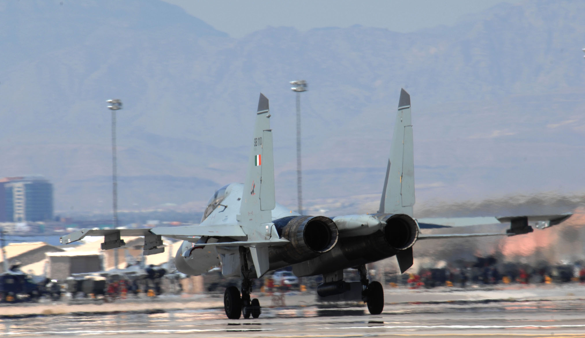 An Indian Air Force SU-30 Fighter lands at Nellis Air Force Base, Nev., August 6, 2008 for participation in Red Flag 08-4. This marks the first time in history that the Indian Air Force has participated in a Red Flag exercise here at Nellis. Red Flag 08-4 begins Aug. 11, 2008 and ends Aug. 22, 2008.